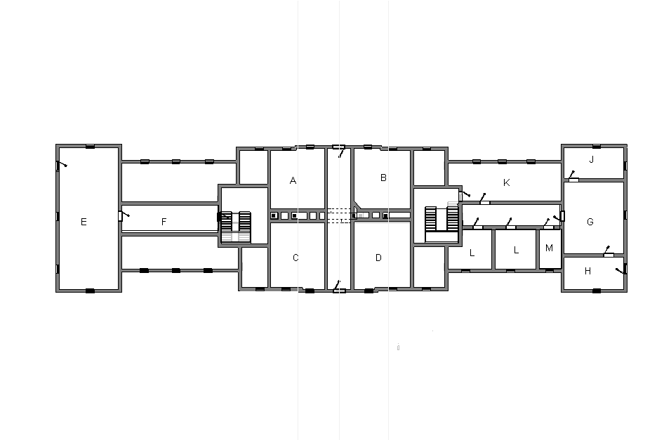 Plan of Winslow Hall, Buckinghamshre, as it was when built. It is now much altered. Plan drawn by me. Giano